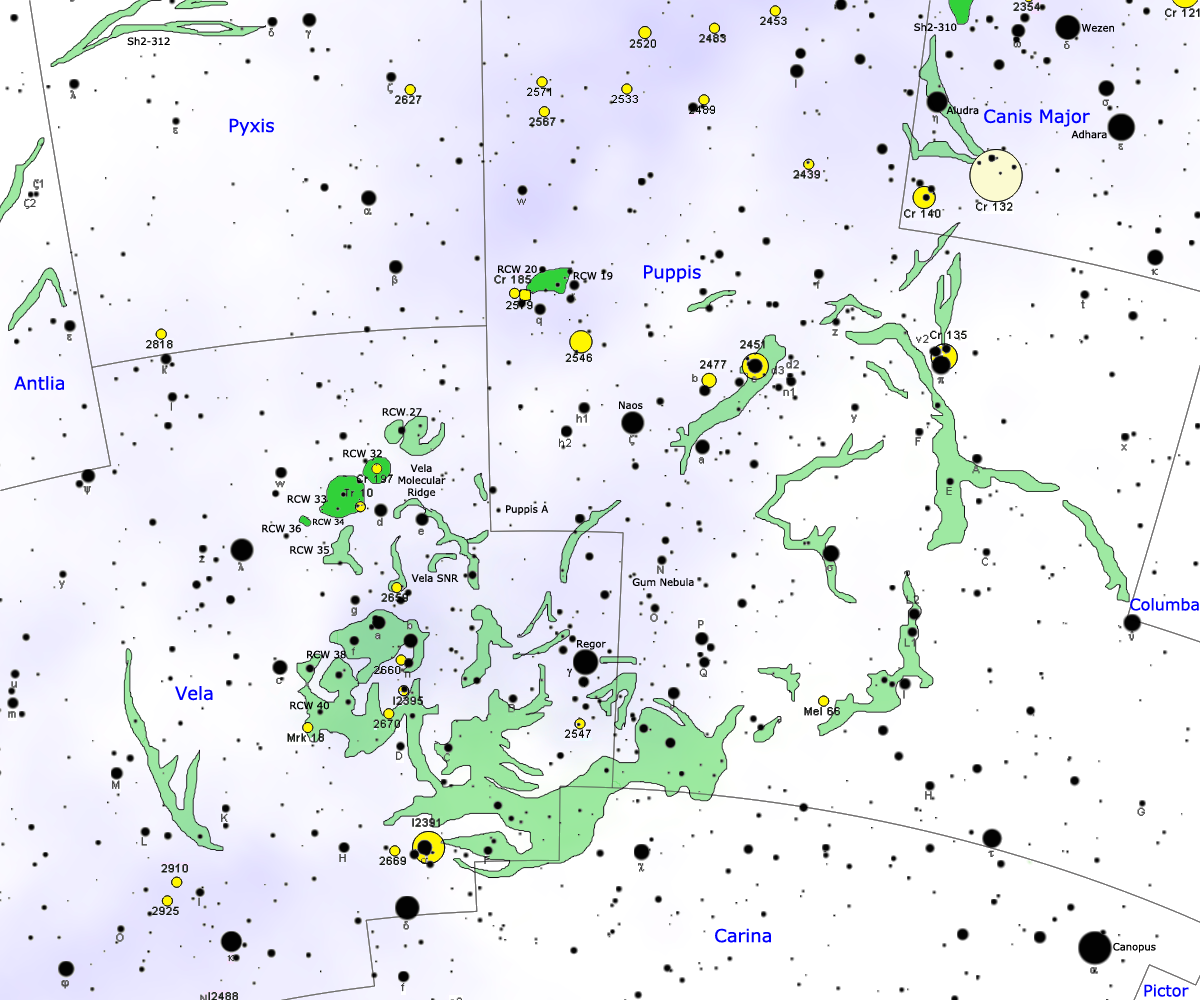 Map of the Gum Nebula